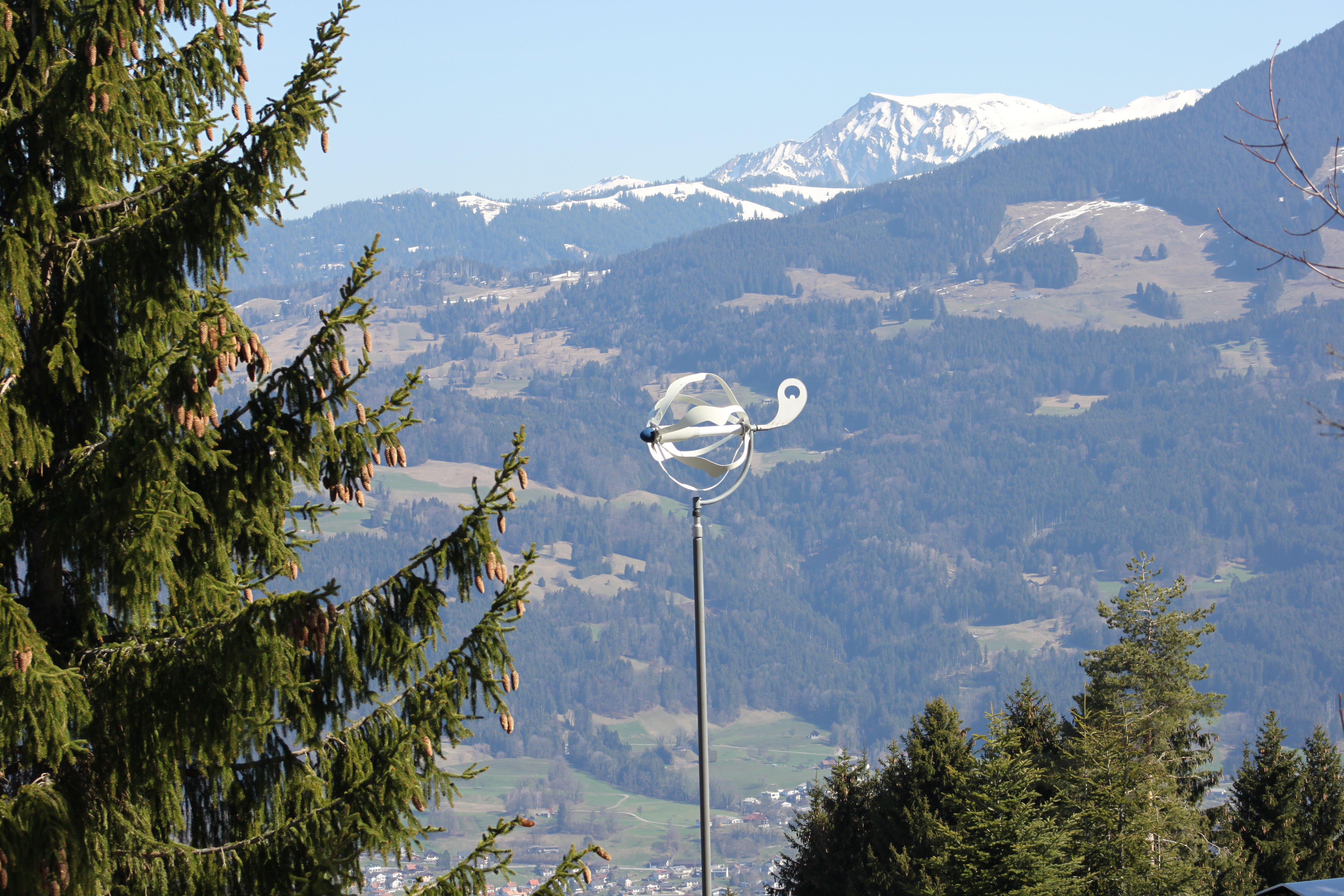 Energy Ball (Type: V100) by Svenska Home Energy is a small wind turbine with a rotor with six blades that surrounds the generator itself. With this rotor design, Energy Ball should deliver energy even at low wind speeds (from 2-3 m / s). Energy Ball V100 has a diameter of almost 1 meter and must be mounted on a freestanding mast with a total height of 10 or 12 meters. At a wind speed of 19 m / s, the Energy Ball V100 should deliver its maximum power, which is 525W. At an average wind speed of 4 m / s, the annual energy output of the energy ball is about 100 kW / h. The price for an energy ball is (inclusive) about 5,000 euros (7,300 dollars). According to the manufacturer, the life expectancy of the Energy Ball is 20 years. The plant pictured here is located in the settlement Bazora in Frastanz, Vorarlberg, Austria.